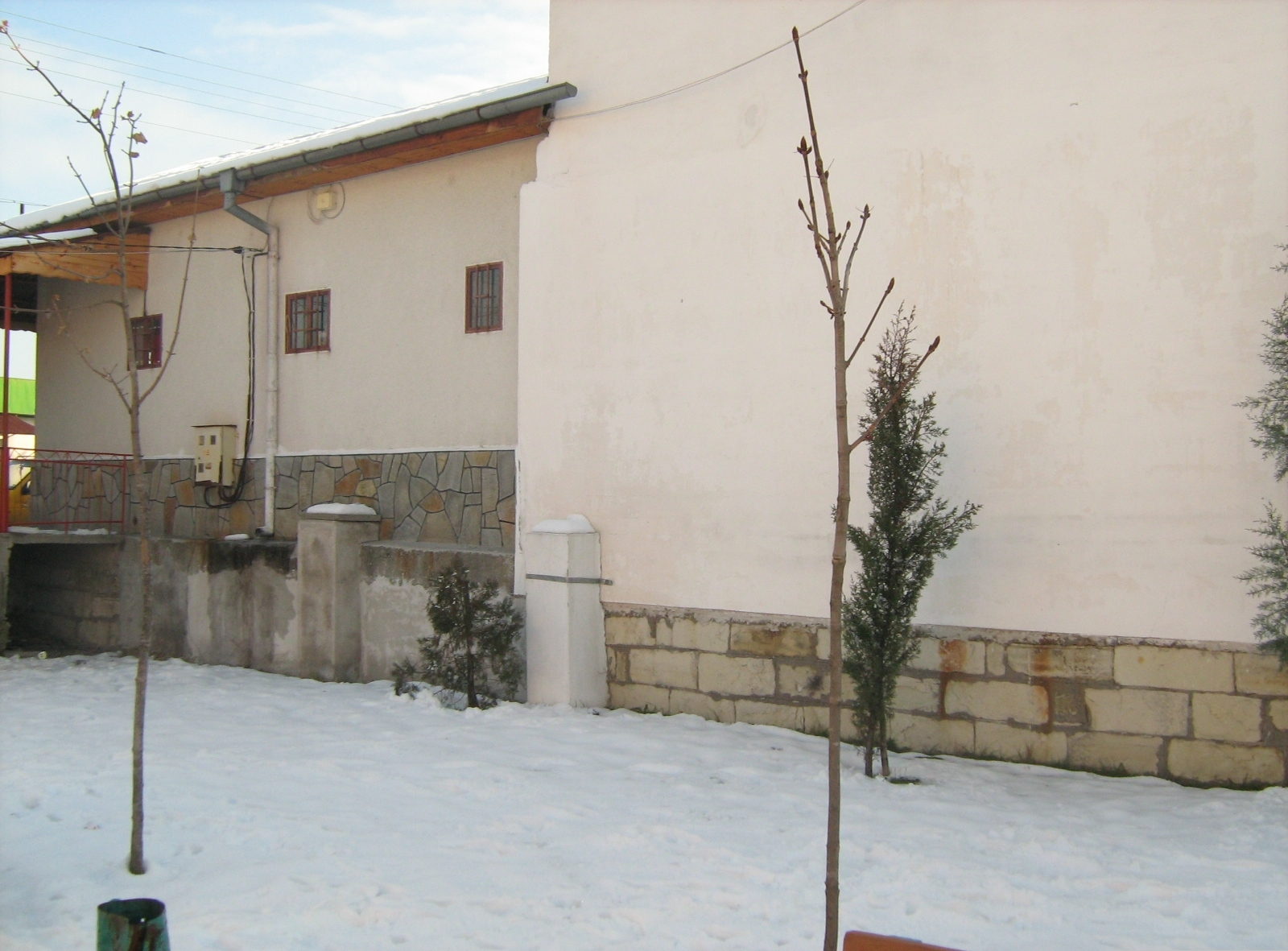 Church Uspenie Bogorodichno, Kardzhali, Bulgaria